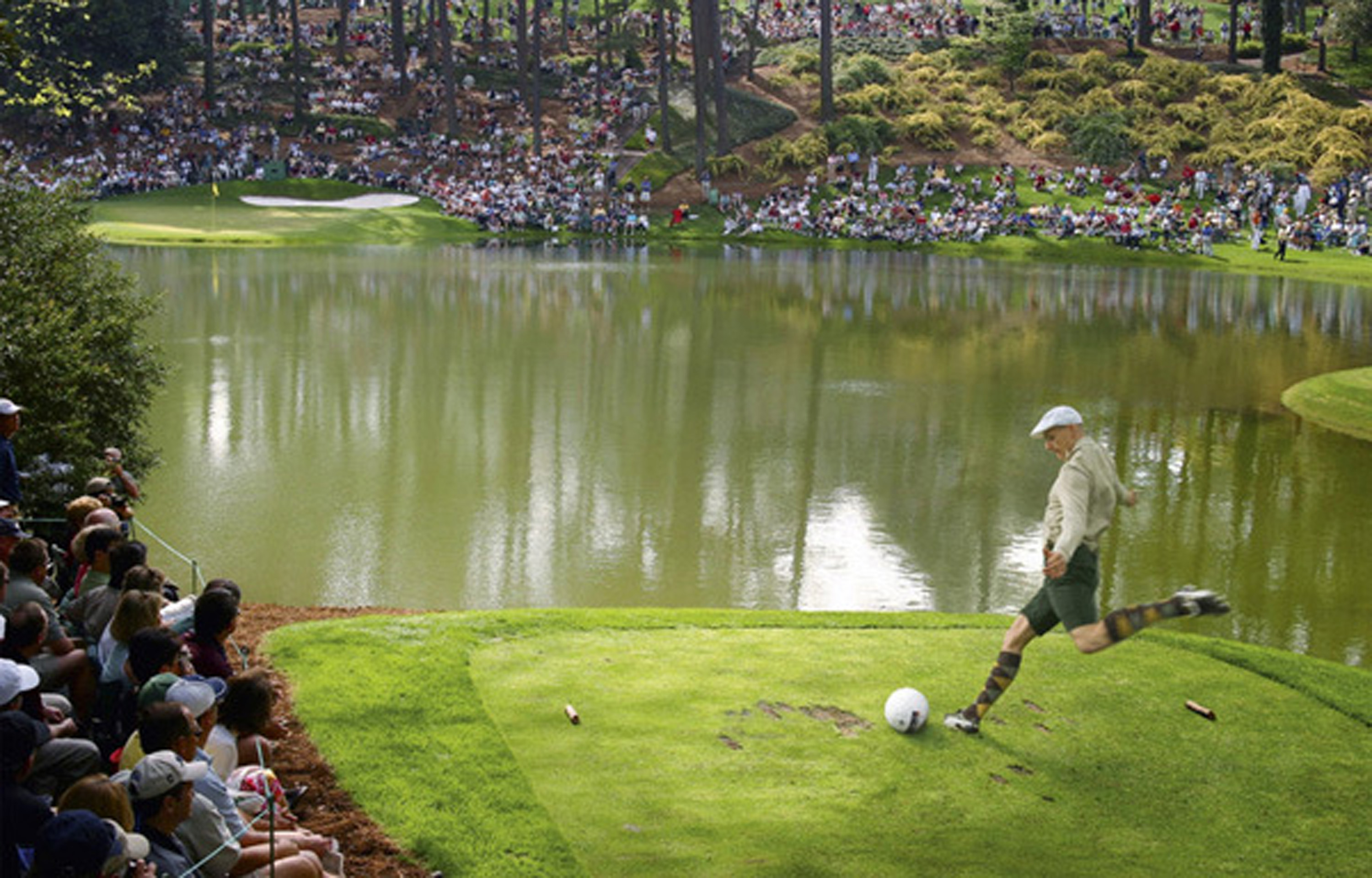 FootGolf